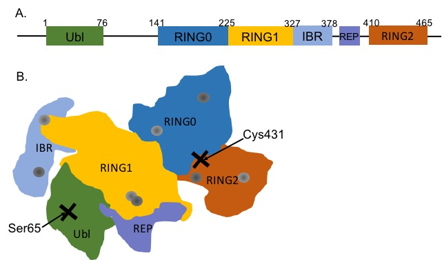 Model of the gene encoding Parkin ligase and two dimensional model of the Parkin protein